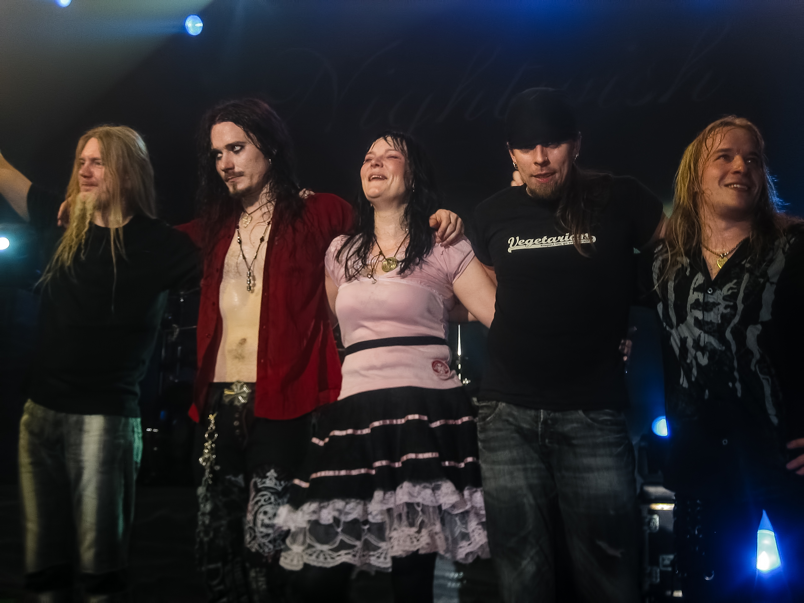 A night at the Astoria. Support band Pain.